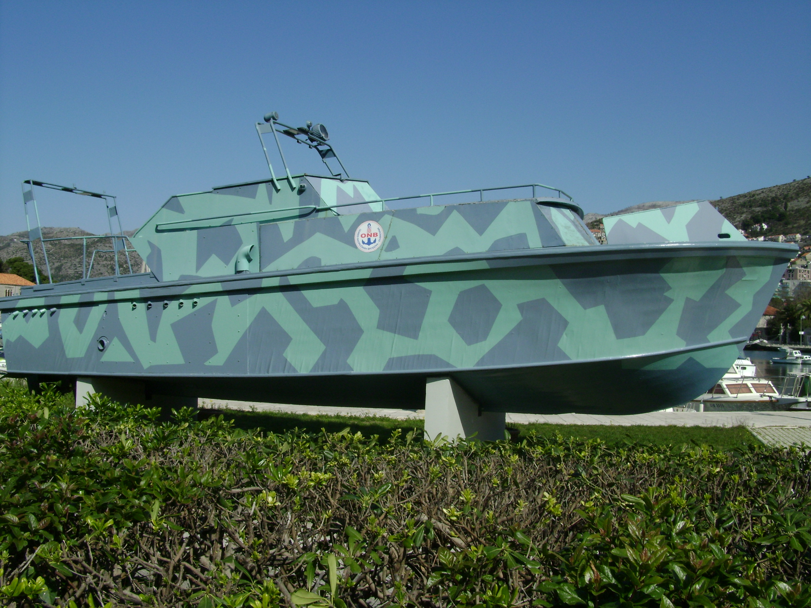 Picture of first Croatian navy ship - Sveti Vlaho